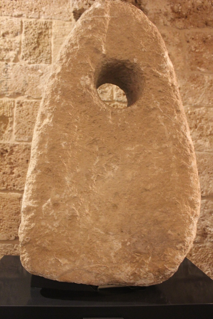 Byblos site miseum: Middle Bronze Age anchor